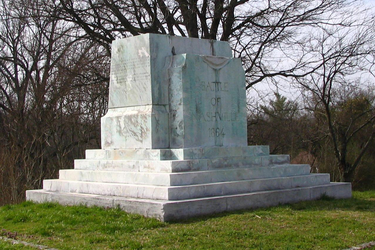 Photo of the original Battle of Nashville Monument near I-440 and Franklin Road, partially destroyed by a tornado. Camera: Canon PowerShot S1 IS